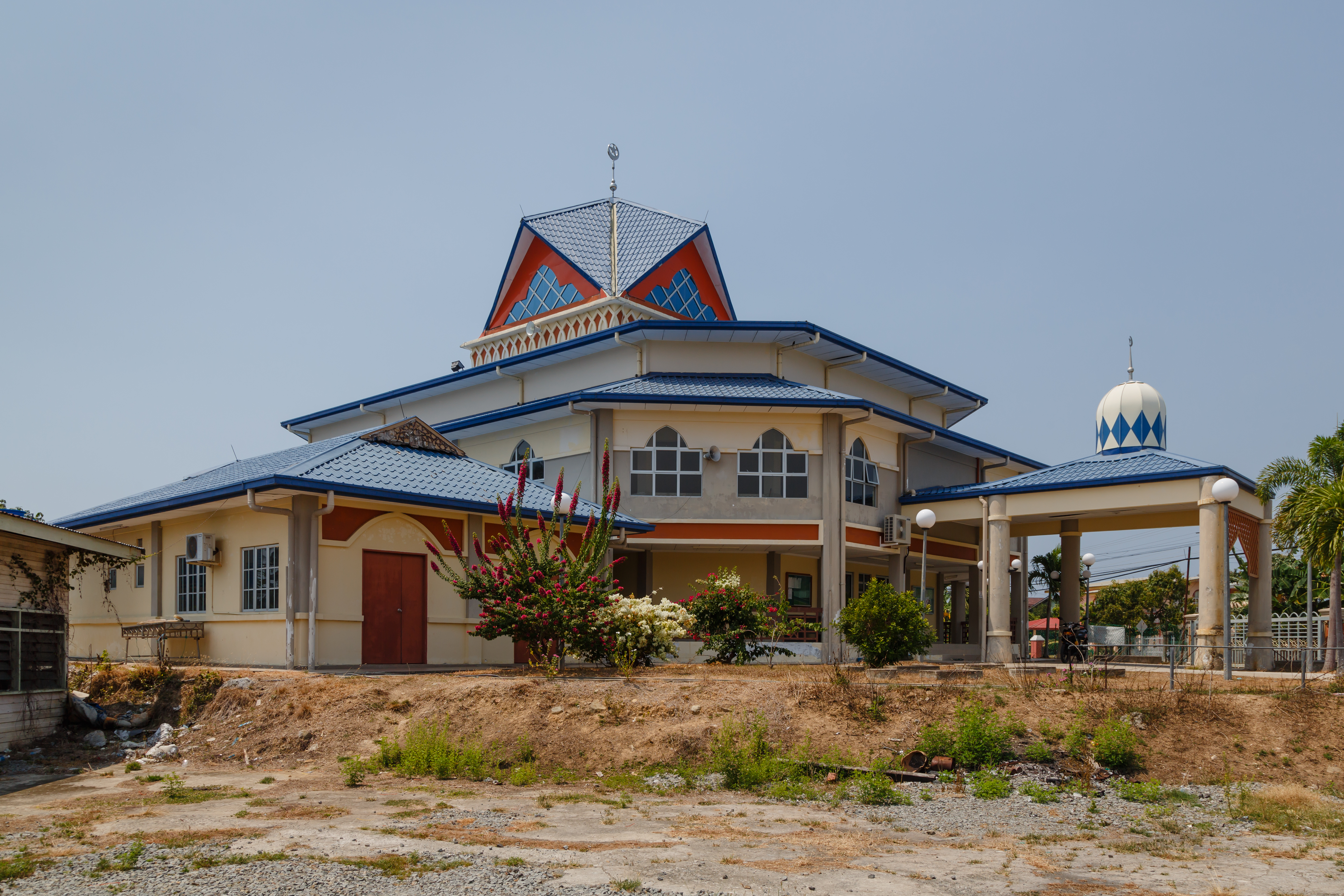 Pengalat Besar, Sabah: Pengalat Besar Mosque (masjid Kg Pengalat Besar).